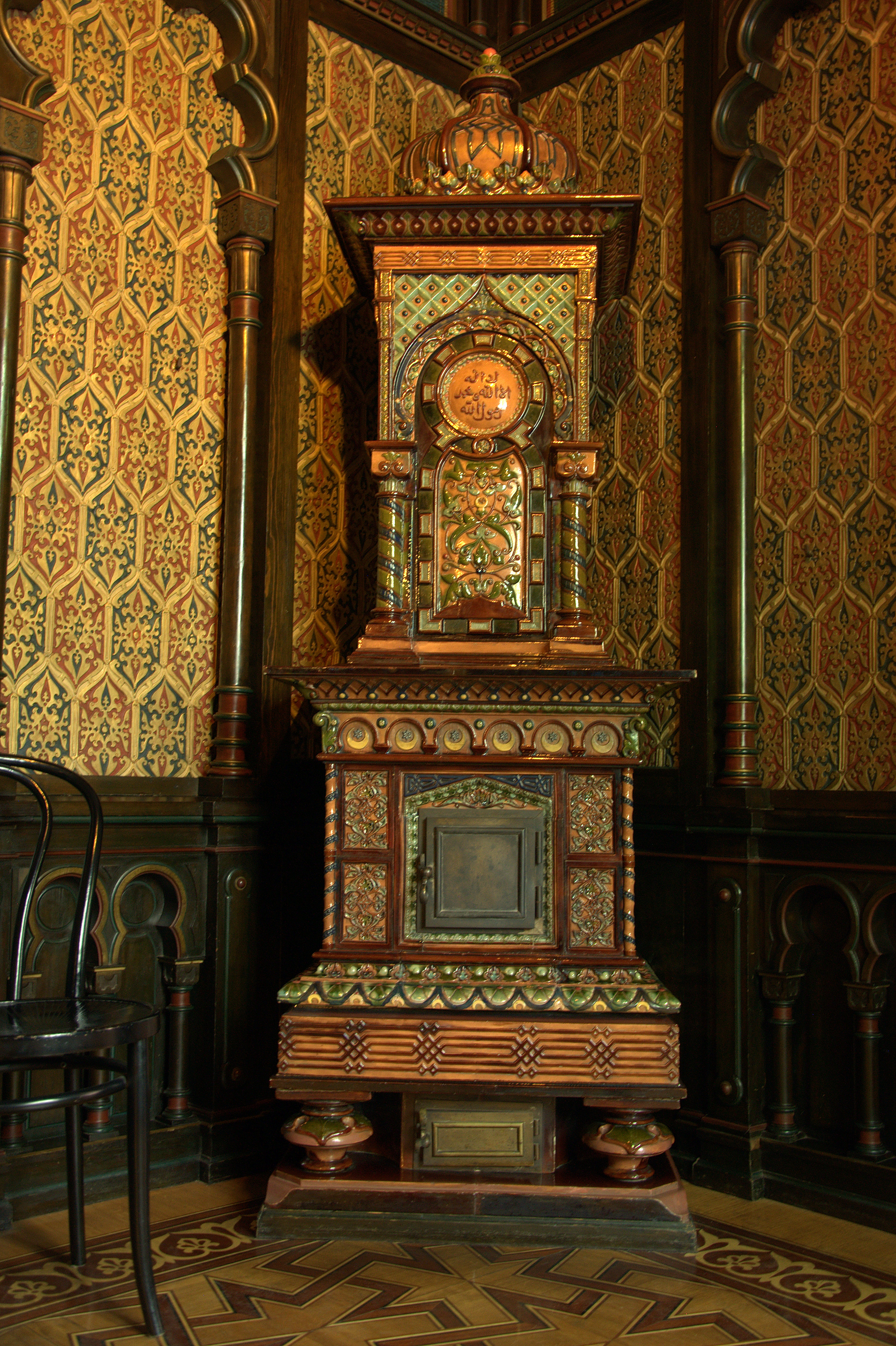 Masonry heater in Scheibler's Palace